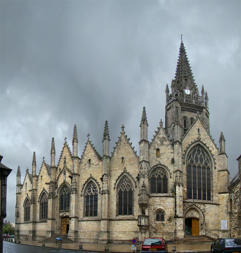 Notre-Dame Church, Vitré, Ille-et-Vilaine, Bretagne, France. South façade with its seven gables separated by pinnacles.